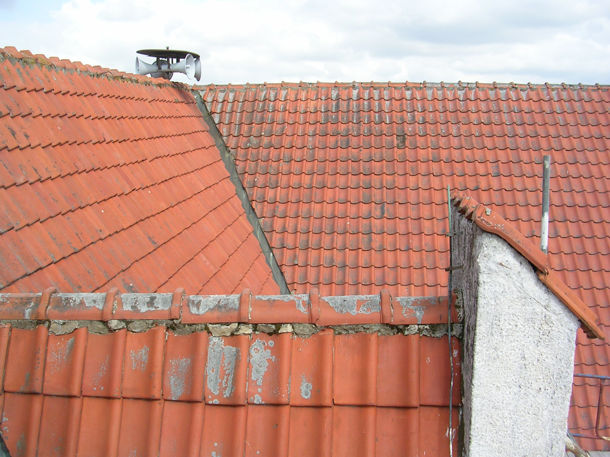 Roof of Sankt Olofs kyrka during restoration Author: Väsk Date: May 2005